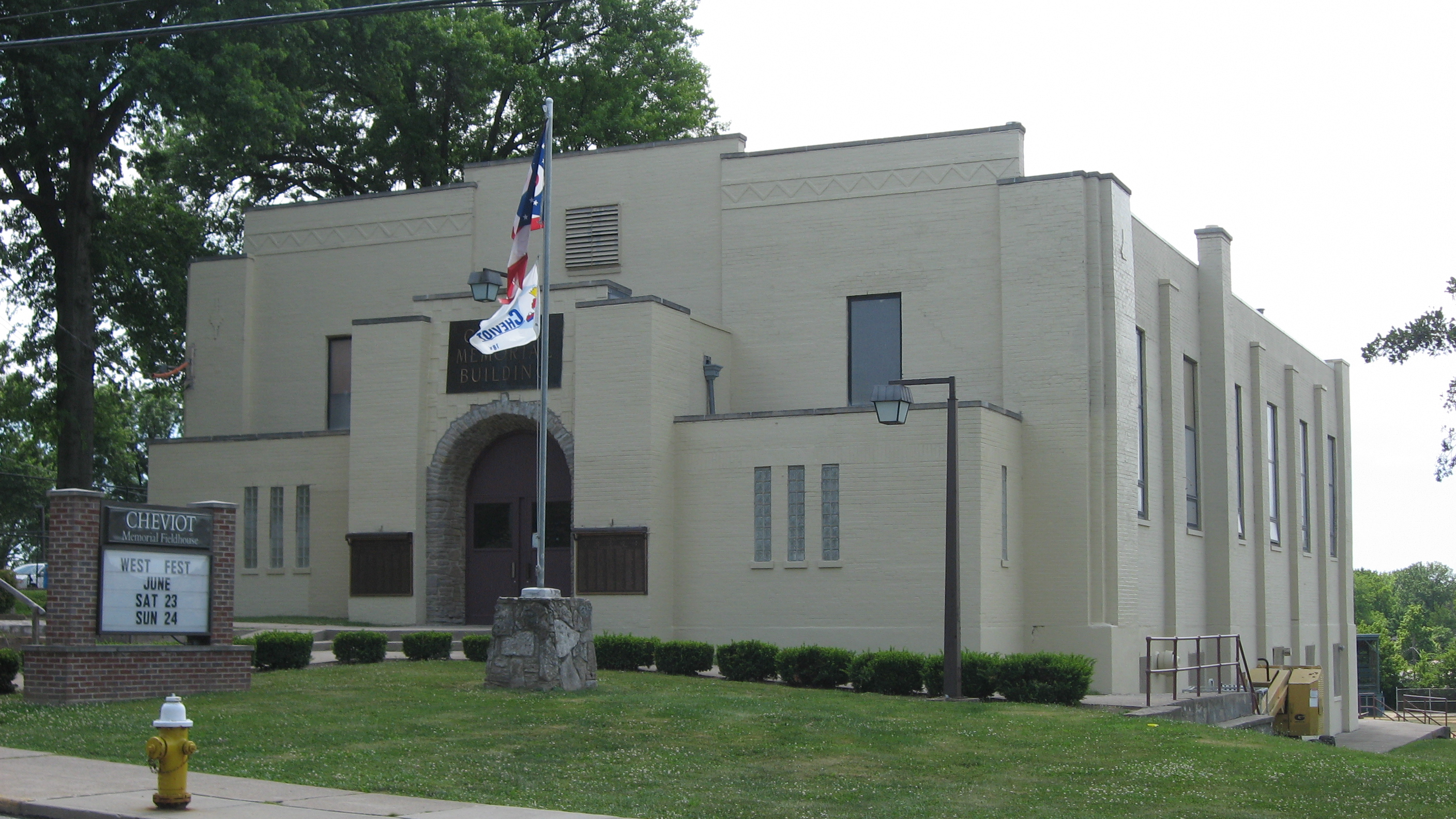 Front and northern side of the Cheviot Fieldhouse, located at 3729 Robb Avenue in Cheviot, Ohio, United States. Built in 1936, it is listed on the National Register of Historic Places.